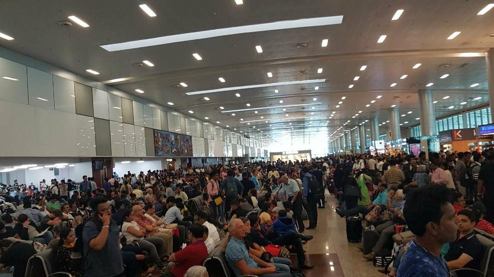 Goa Airport